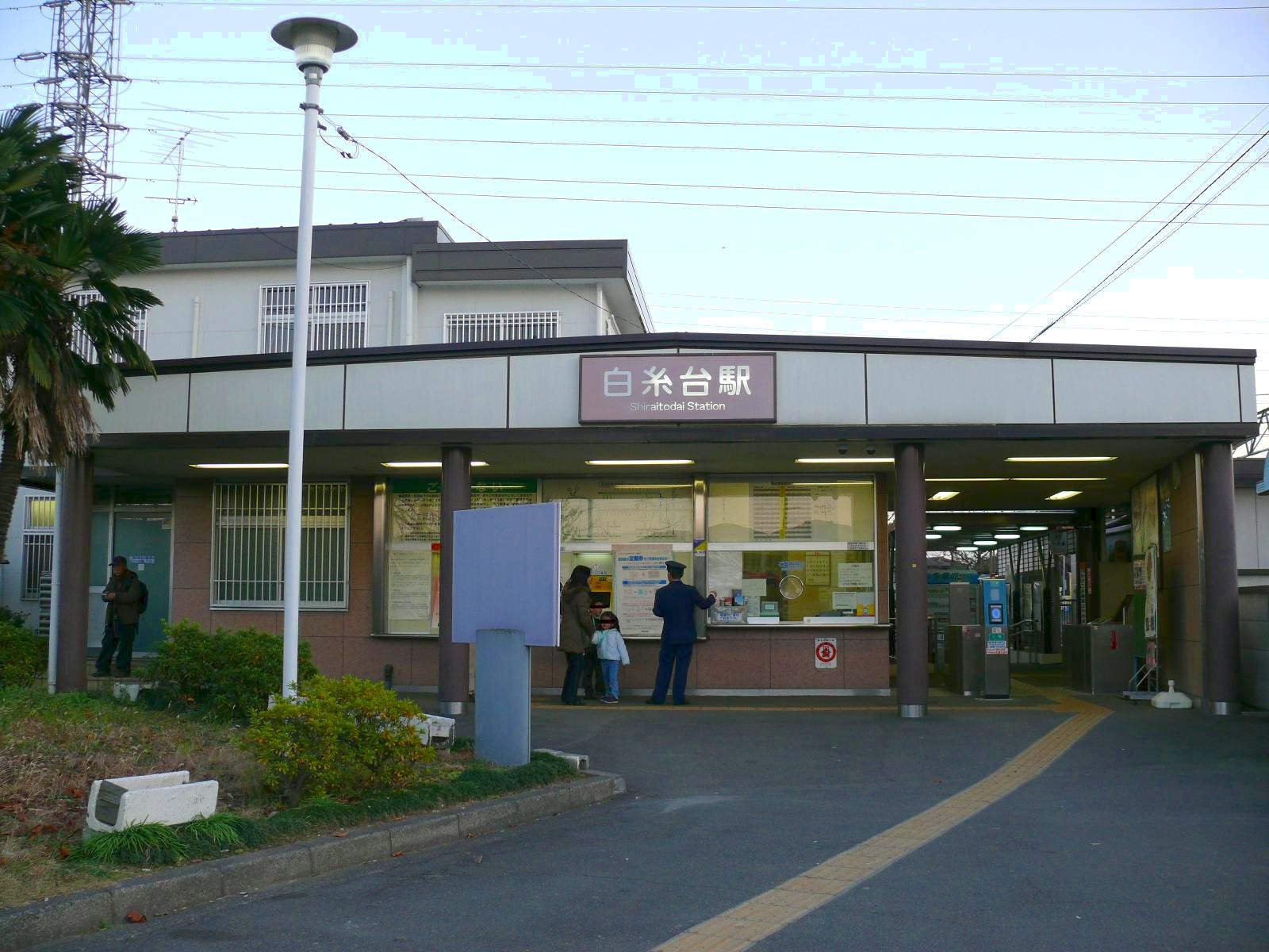 Seibu-Railway Shiraitodai-station(Japan, Fuchu-City).